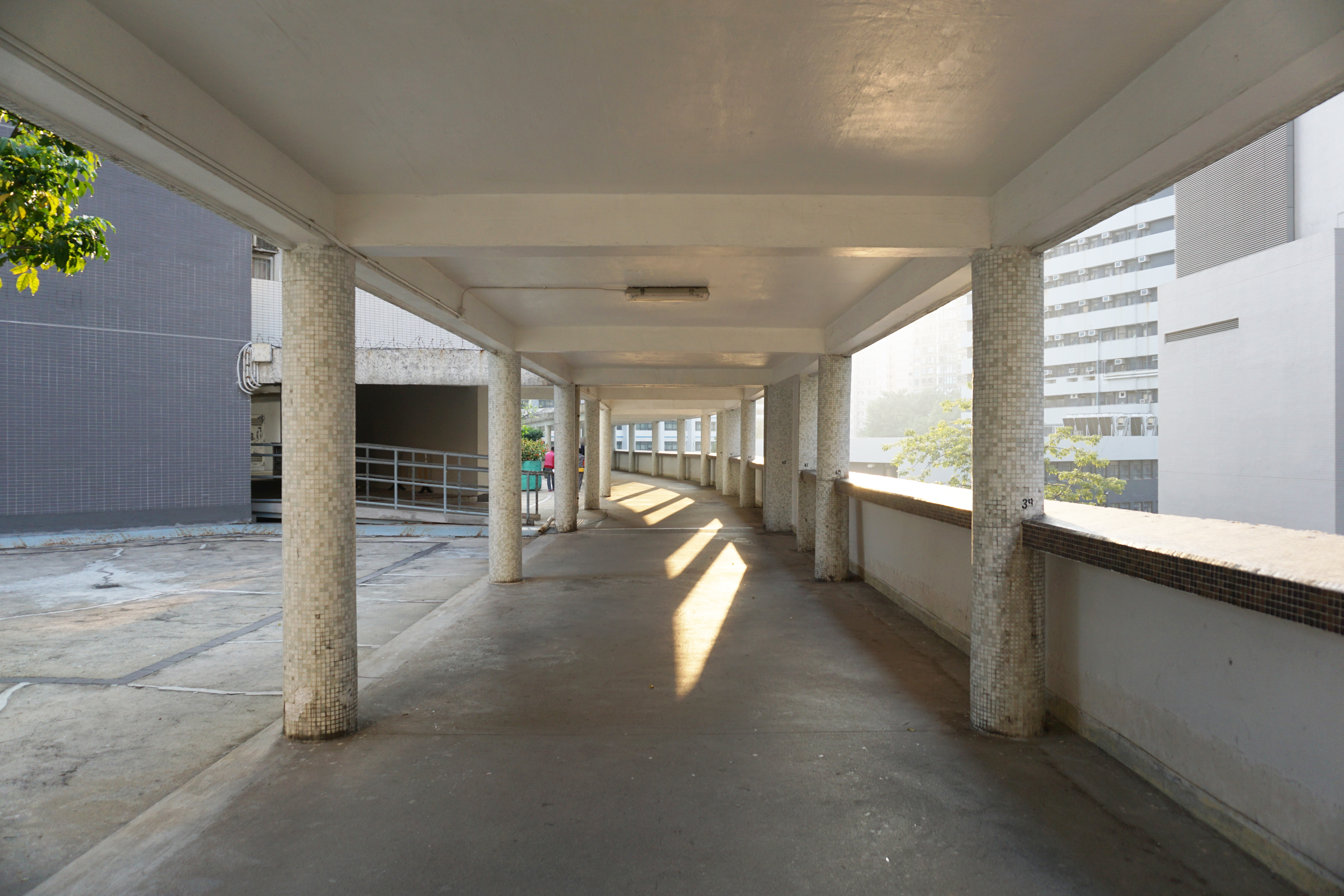 Chun Man Court in Ho Man Tin, Hong Kong.